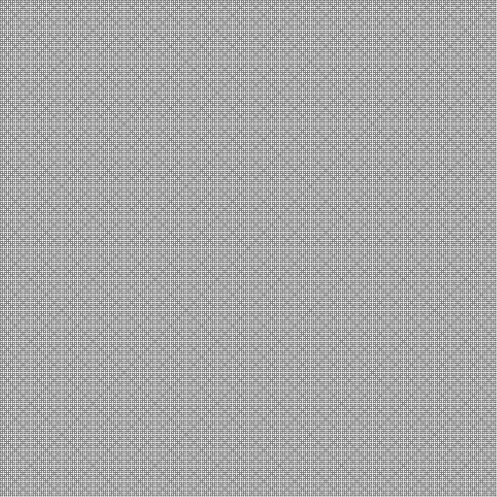 Sierpinski Curve L8